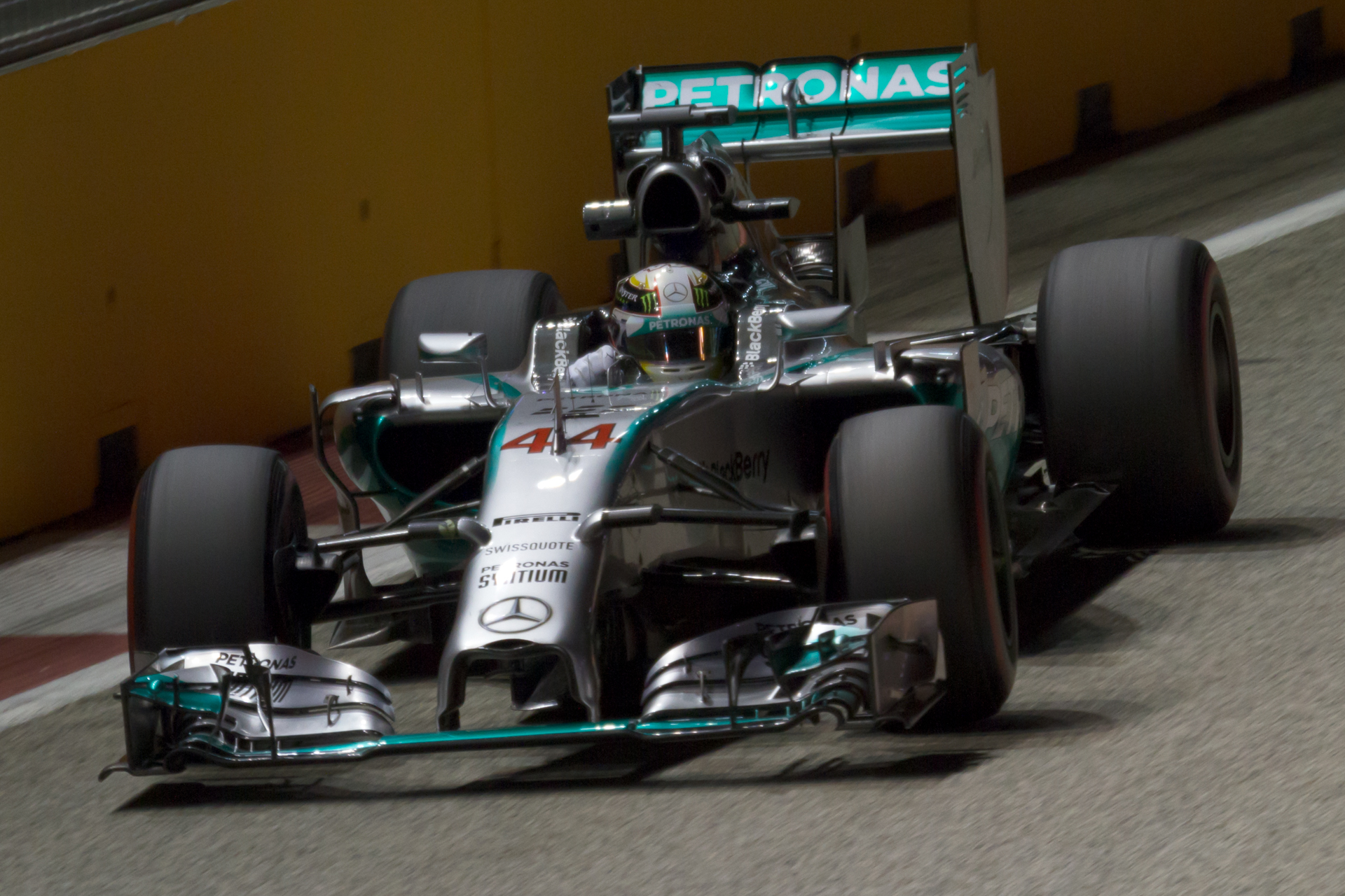 Formula One 2014 Rd.14 Singapore GP: Lewis Hamilton (Mercedes GP)